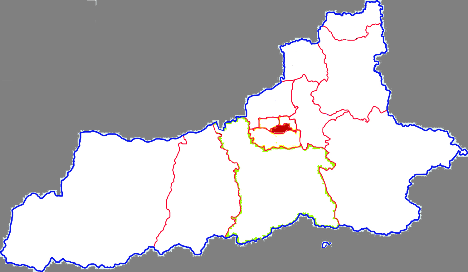 Location of Beilin district in Xi'an city, China